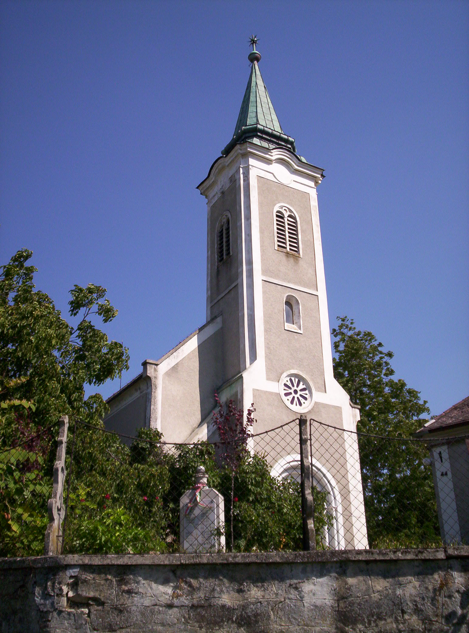 Reformed church, Veszprém-Kádárta